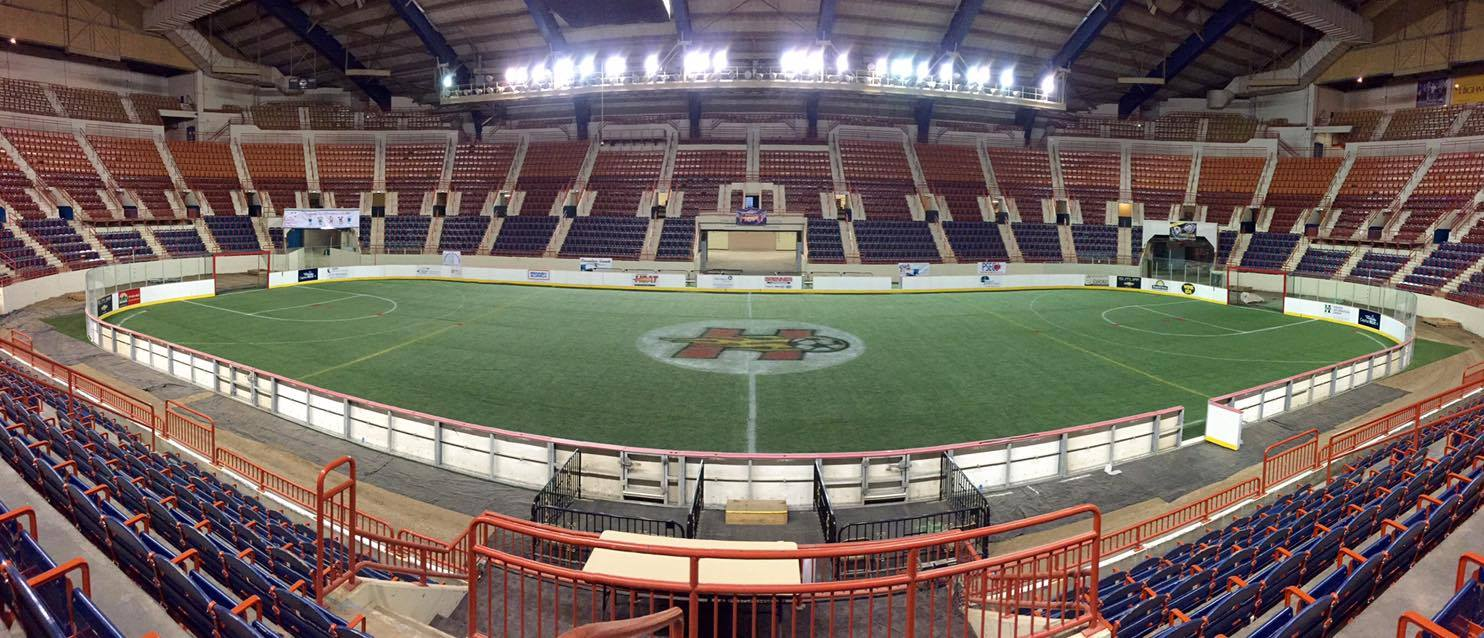 Panoramic view of the Harrisburg Heats field in the Large Arena